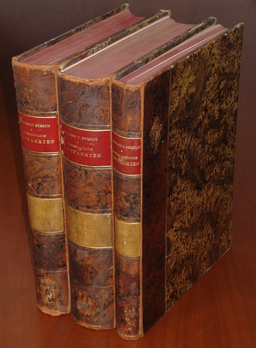 Richard Aßmann und Arthur Berson: Wissenschaftliche Luftfahrten, Volume 1-3, Vieweg, Braunschweig 1899-1900